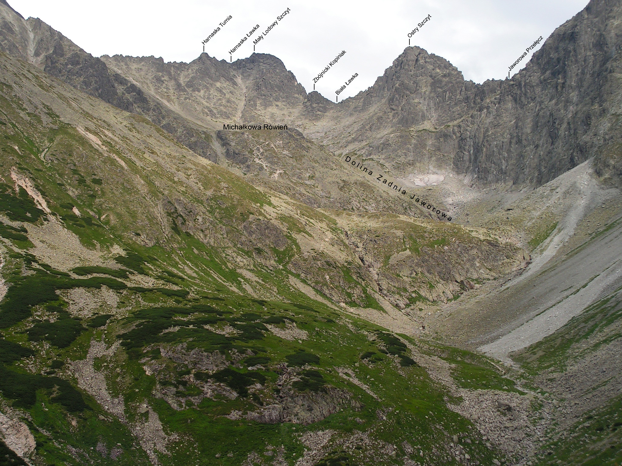 The peaks above Zadná Javorová dolina (polish names).